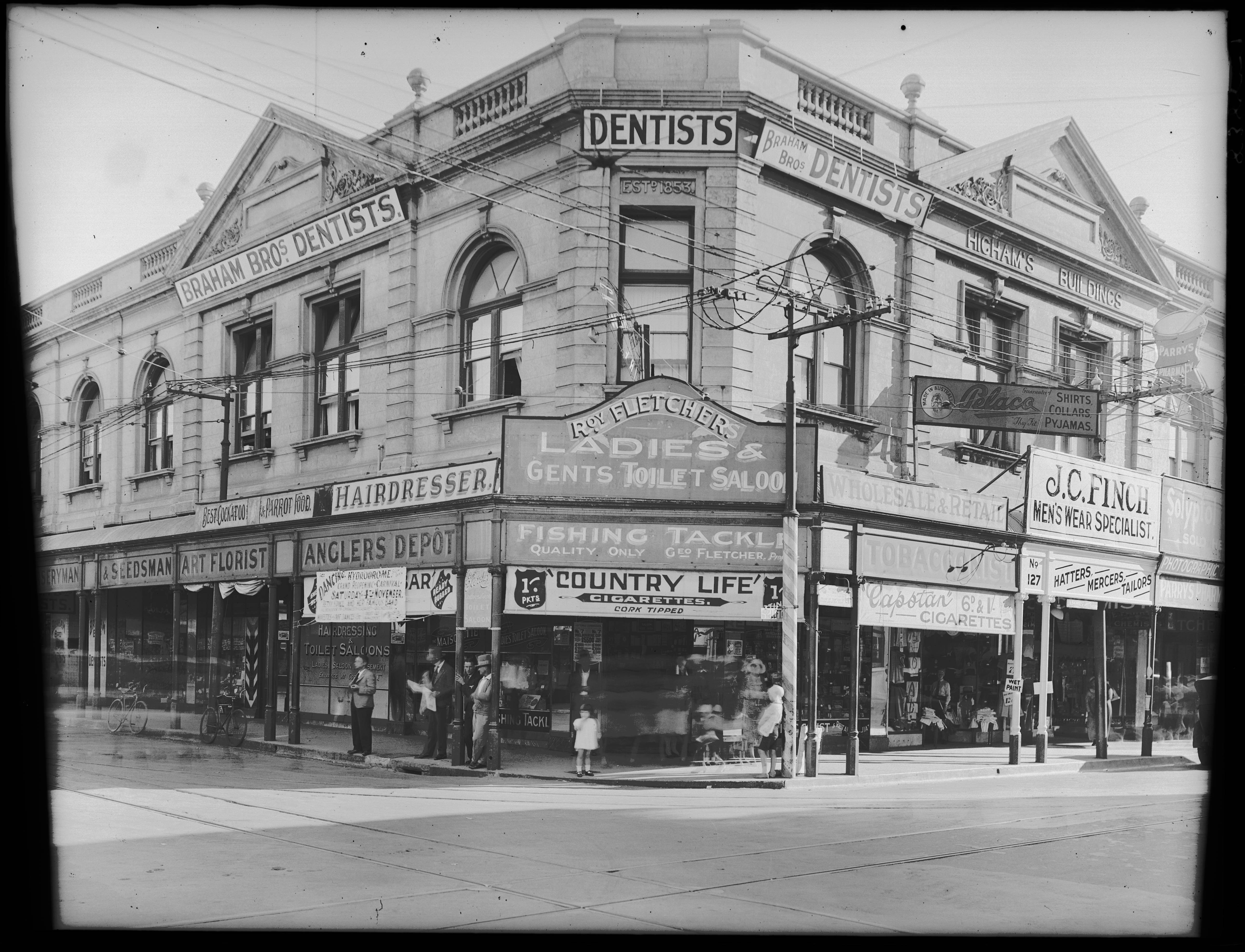 Highams Buildings, corner of Market and High Street Fremantle 1933